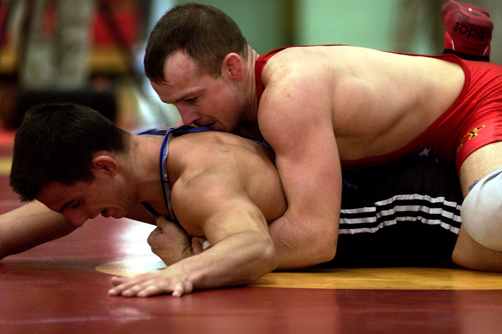 US Army Specialist, Fourth Class Jeff Beddard, from Fort Carson, Colorado, works on his opponent Vladimir Chamula, from Slovakia, during the 63Kg Free-Style 19th World Military Wrestling Championship. SPC Beddard won the match 4-1. The Conseil International du Sport Militaire 19th World Military Wrestling Championship (CISM) is a multi-national wrestling tournament hosted by Marine Corps base Camp Lejeune, North Carolina. Competing nations include: Brazil, China, Estonia, Finland, Germany, Greece, Slovakia, Turkey, United States and Vietnam. The wrestlers will be competing in two different competitions, Free-Style and Greco-Roman. Founded on Feb. 18, 1948, CISM is one of the largest multi-disciplinary organizations in the world. With a motto of "Friendship Through Sport", CISM with its 122 member nations, uses the playing field to unite armed forces of countries that may have previously confronted each other because of political and ideological differences. (Released to Public)